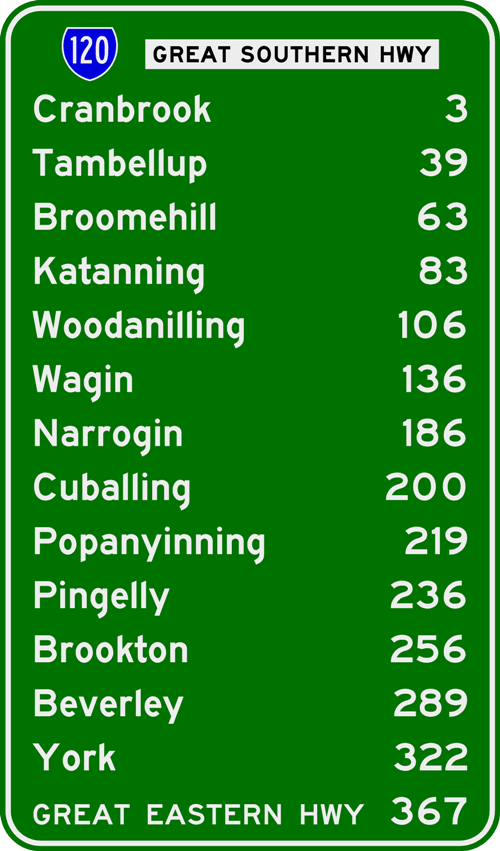 Great Southern Highway Route Confirmation Sign